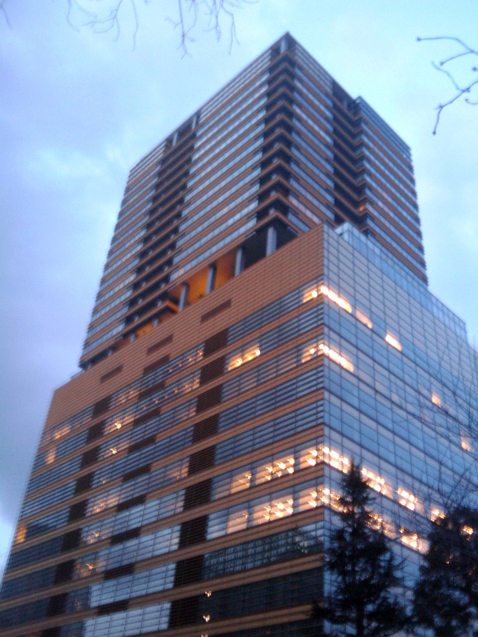 Akasaka Intercity